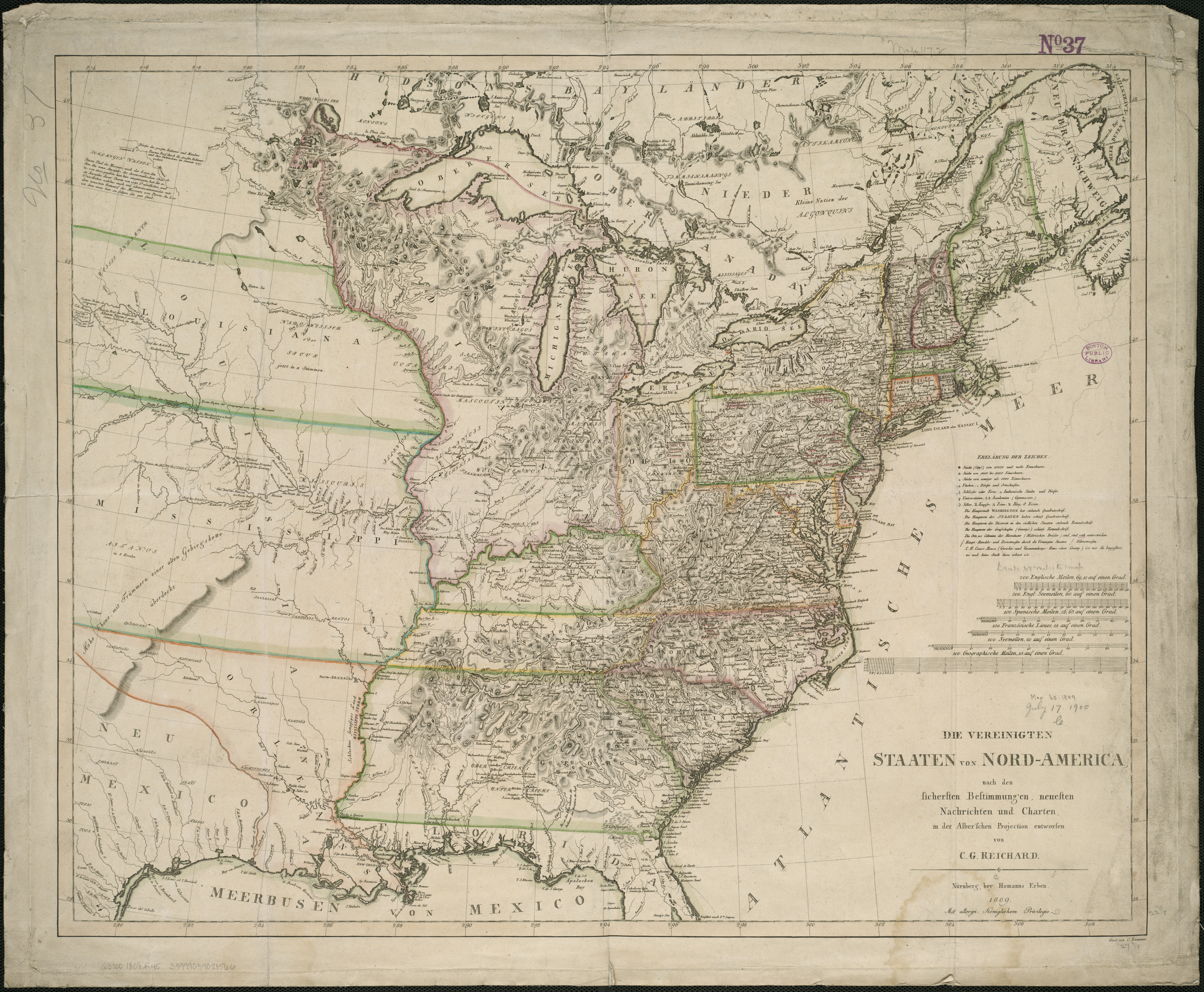 “Map of the United States of North America” – possibly the first published map with Albers equal-area projection. Height: 58 cm (22.8 in); Width: 70 cm (27.5 in) dimensions QS:P2048,58U174728;P2049,70U174728